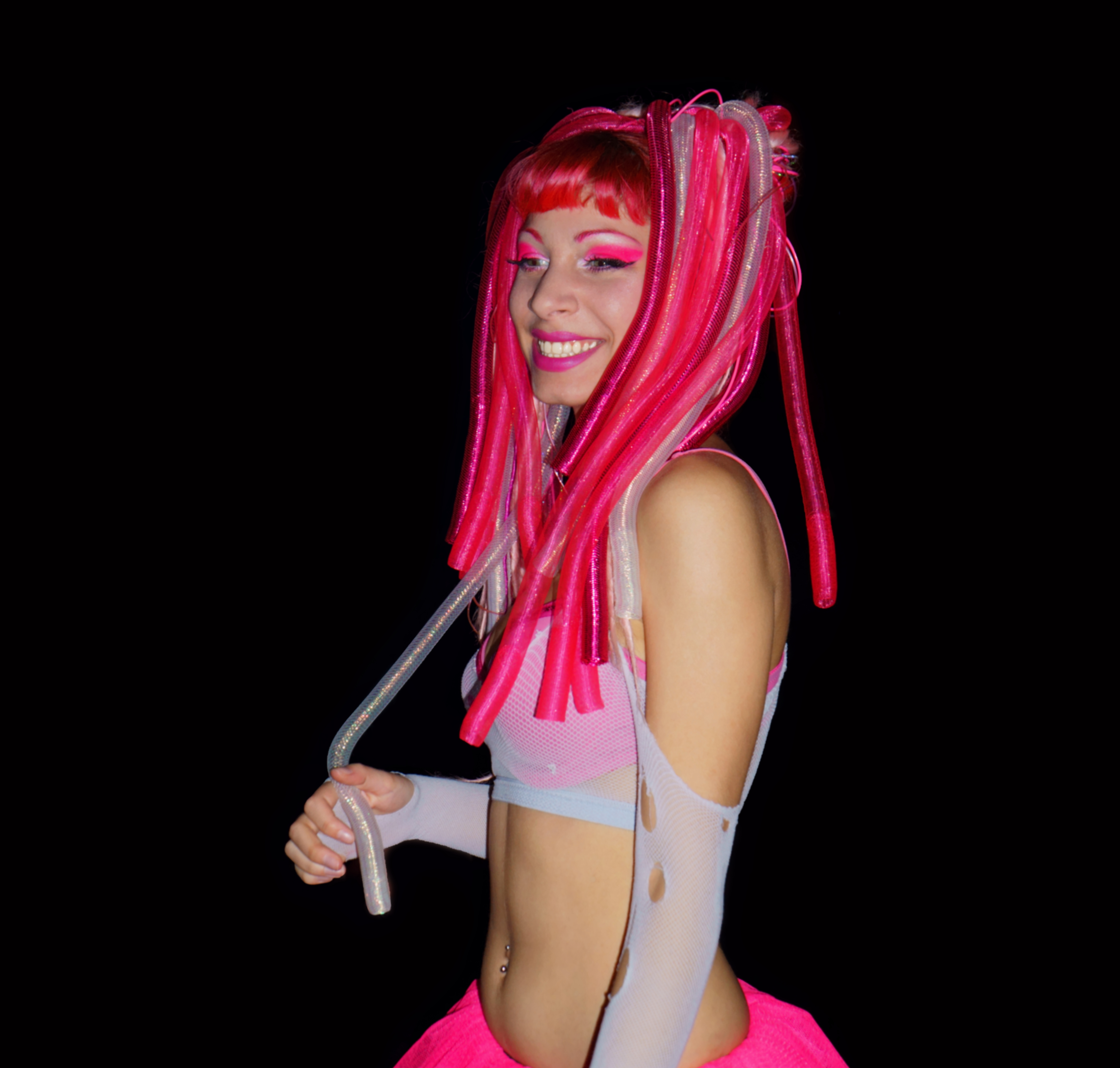 Portrait of a woman dressed in an outfit, photographed in 2013. Donated to the public domain (CC0) for educational or other socially-beneficial uses.